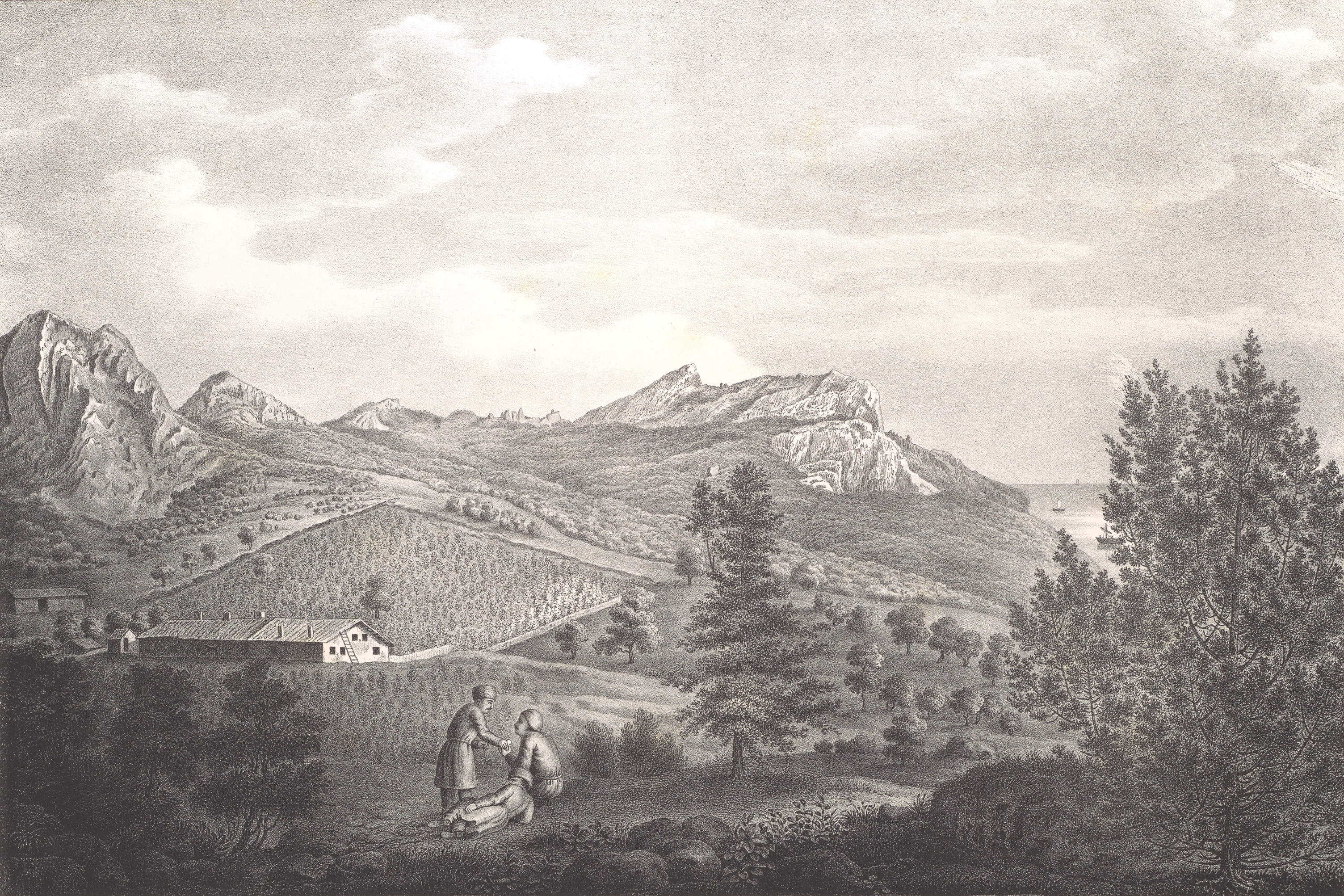 View of Mount St. Elias (Ilyas Kayasy) from the valley of Balaclava in the Crimea (sheet LVI second part of the atlas to the "Journey to the Caucasus ..." Frederic Dubois de Monpere. Paris. 1843)